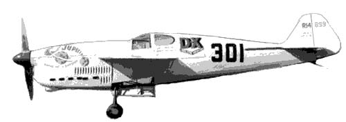 Folkerts Sk-3 air racer (based on the SK-1)